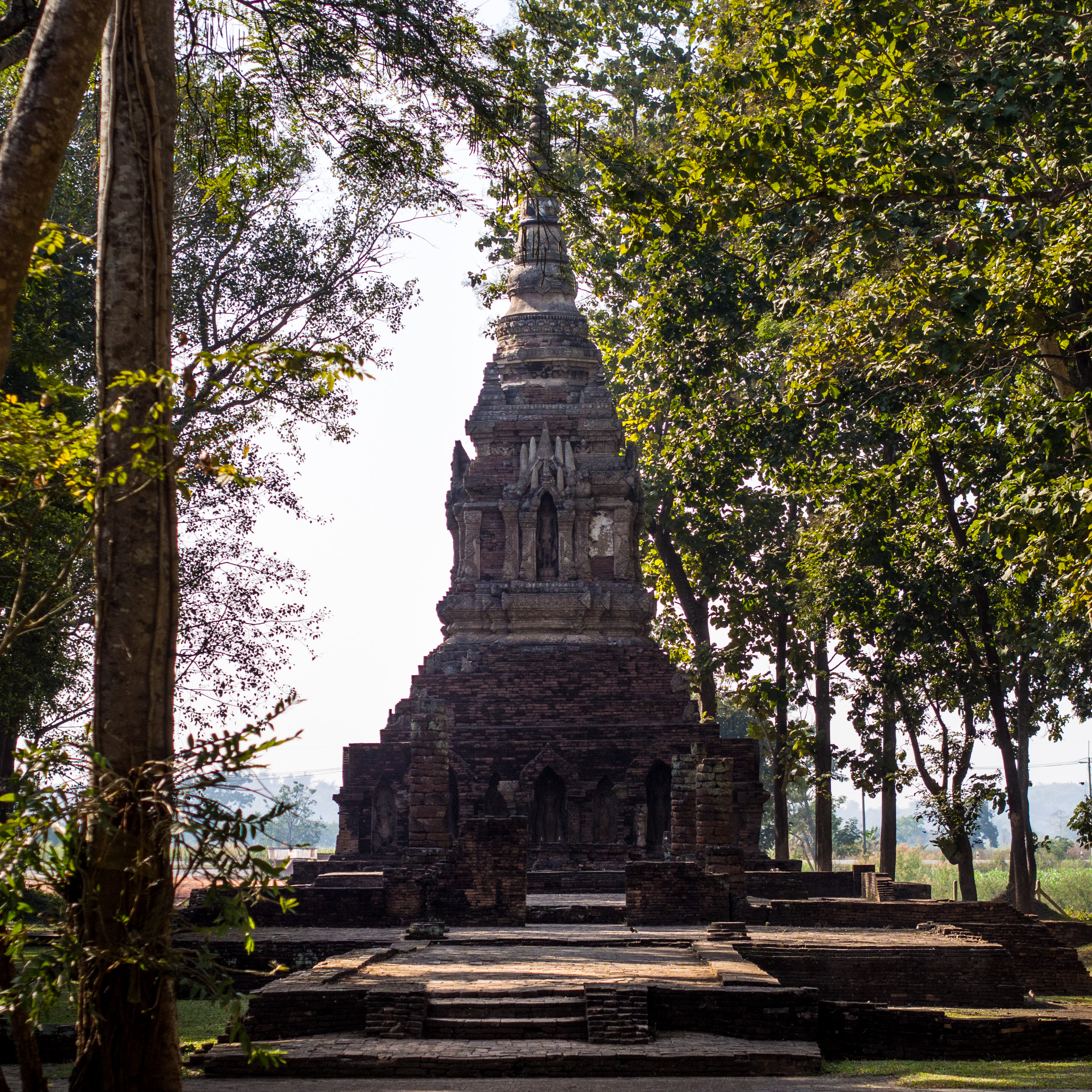 The chedi of Wat Pa Sak, Chiang Saen, Chiang Rai Province.